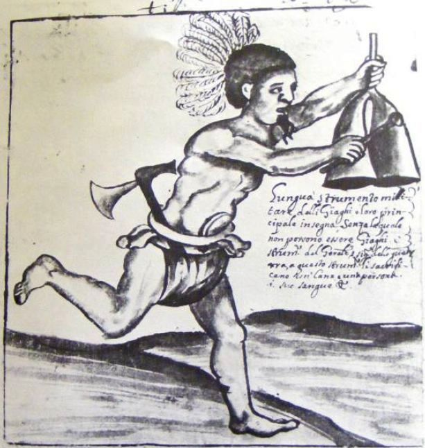 Italian Araldi manuscript. Kongolese runner with double bell